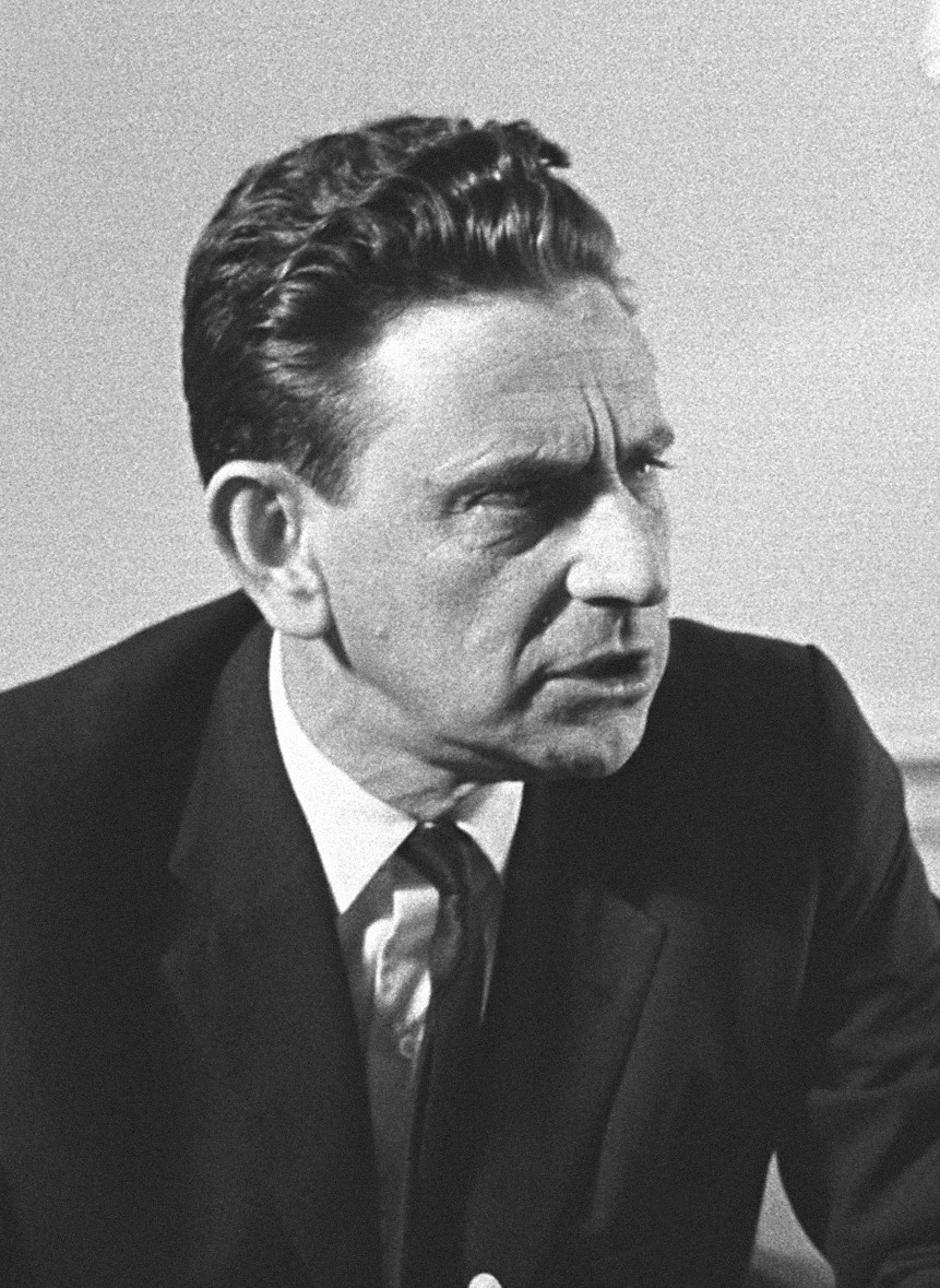 Panayiotis Papaligouras, the Minister of Coordination, Greece, 1963.